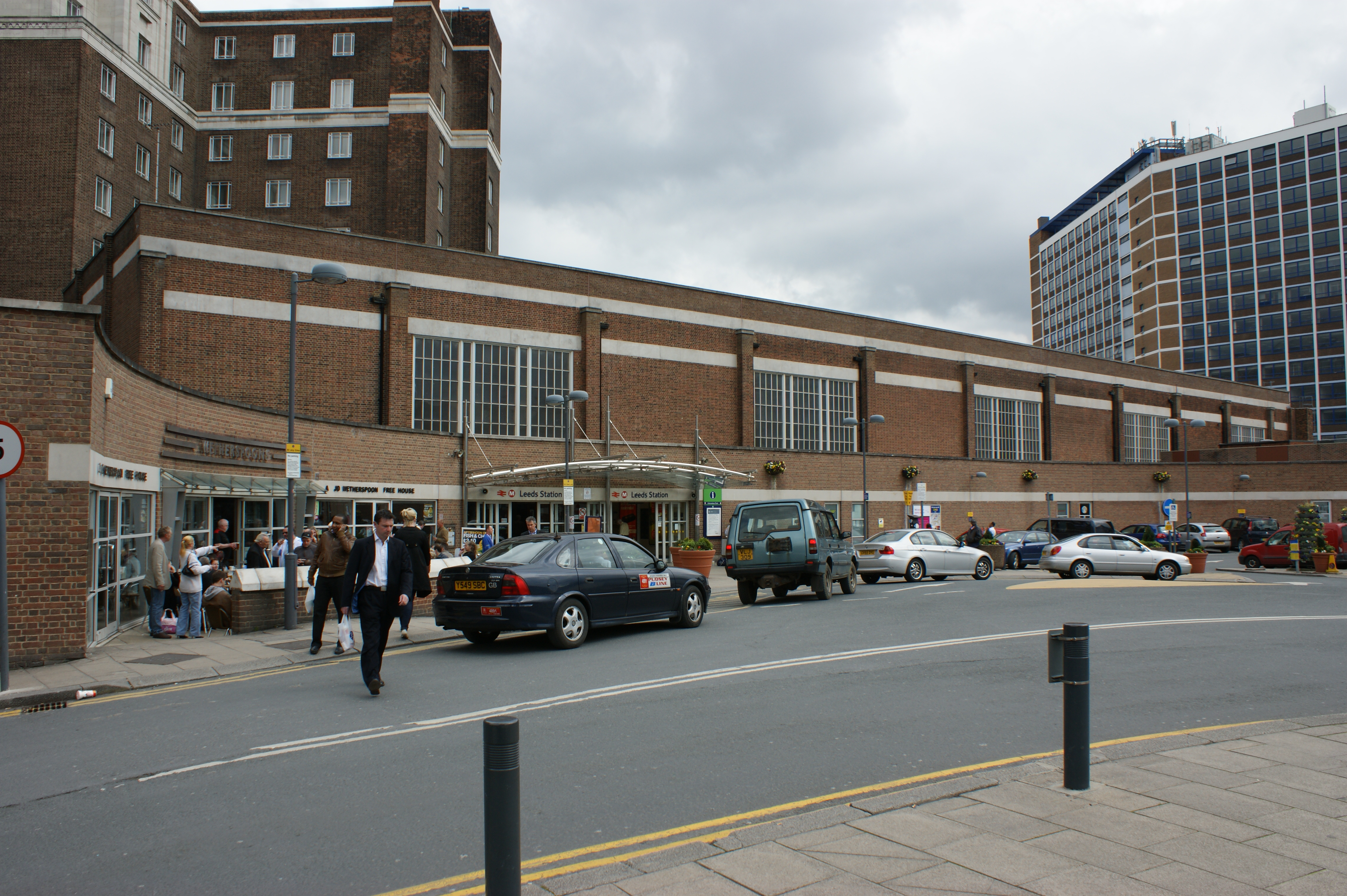 The former L.M.S. station of Leeds Wellington, now part of Leeds City, 4/08.